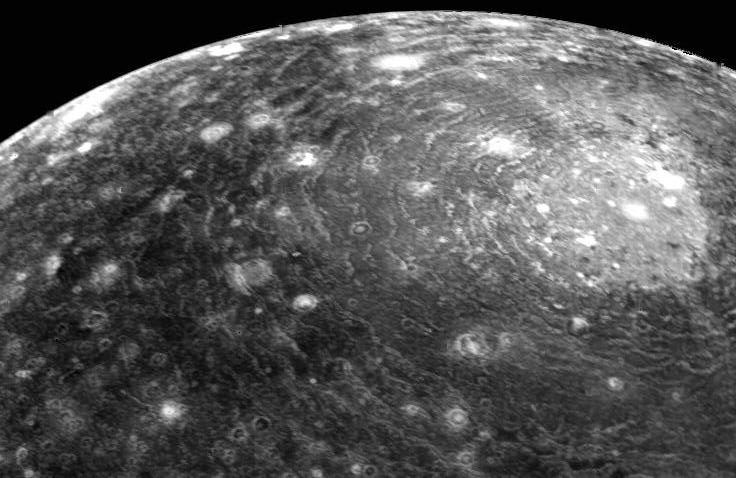 Callisto, composed of rock and ice, is covered with numerous impact craters. The largest of these is Valhalla Basin, a 2748-km (1650-mi) multi-ring impact basin near the top of the image. Craters on Callisto appear as bright and dark spots whose morphology changes. Newer craters appear as sharply defined bright and dark spots. Over time older craters appear as more diffuse splotches.